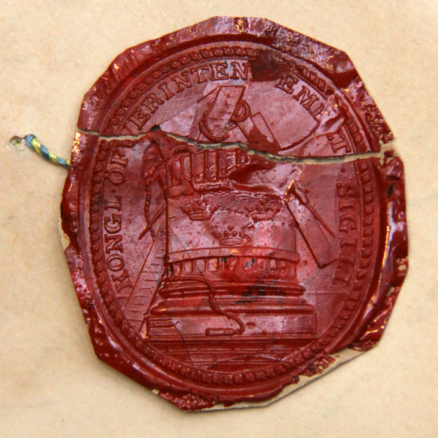 Överintendentämbetet's seal.